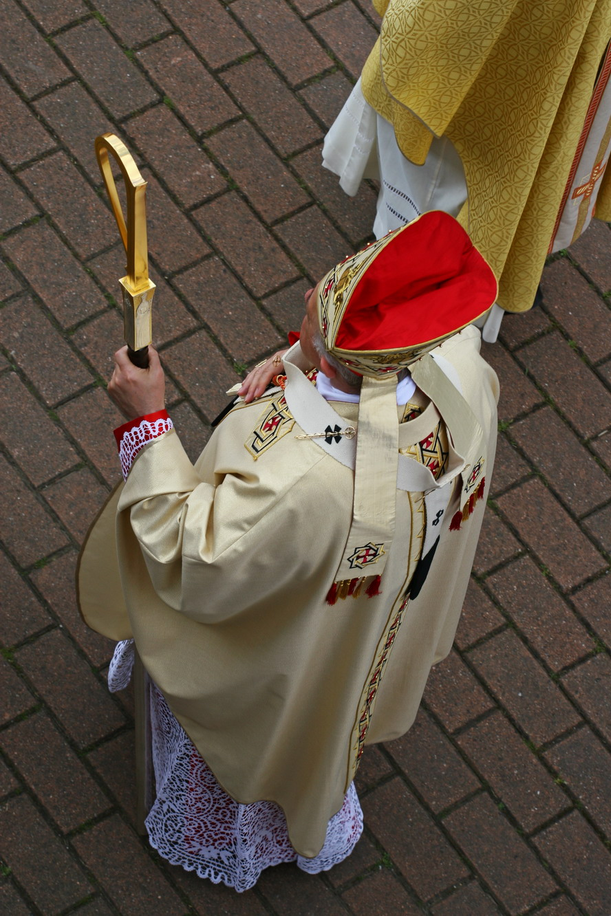 Cardinal Dionigi Tettamanzi, archibishop of Milan with